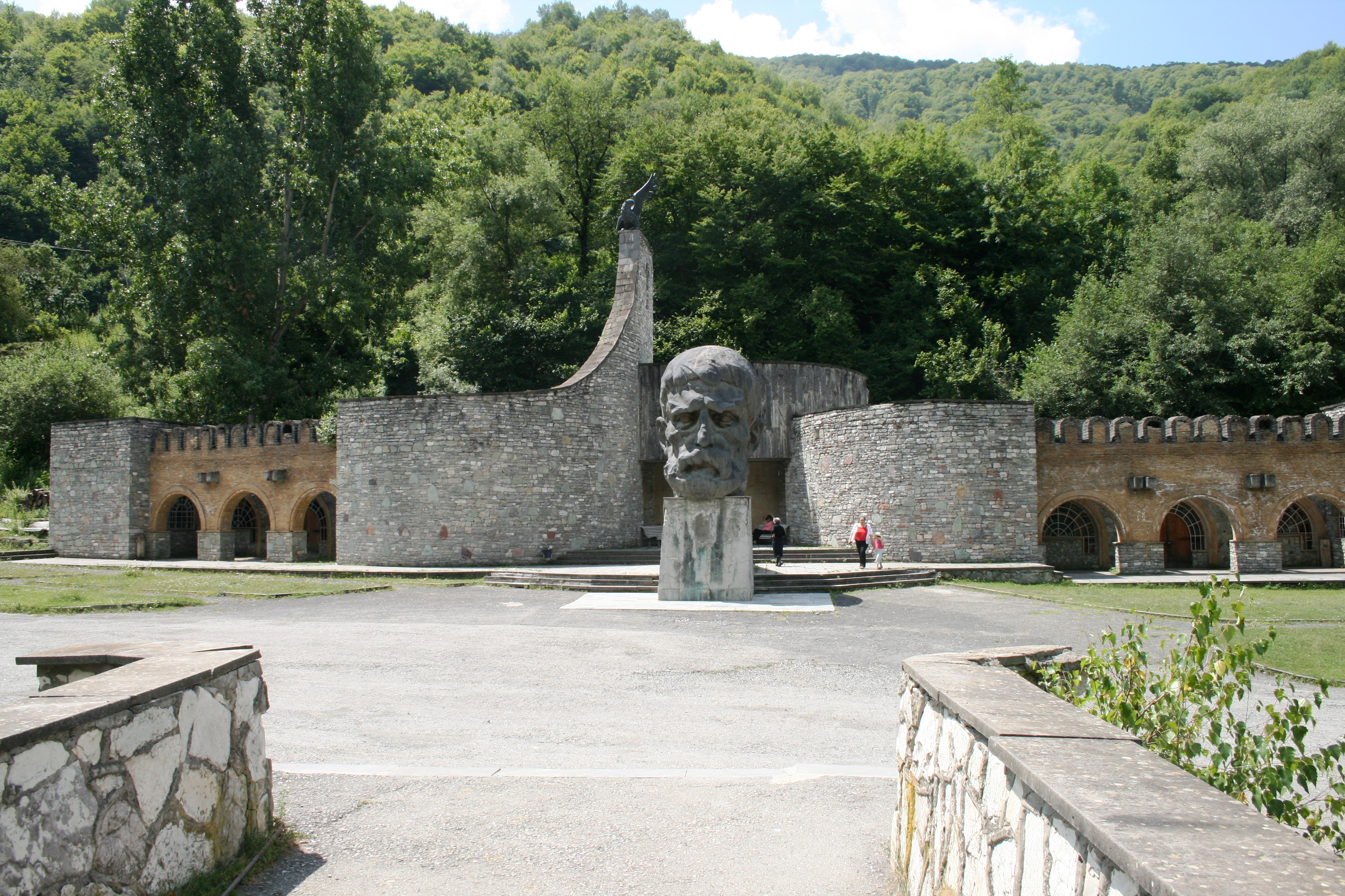 Vazha-Pshavela museum in Chargali, Georgia